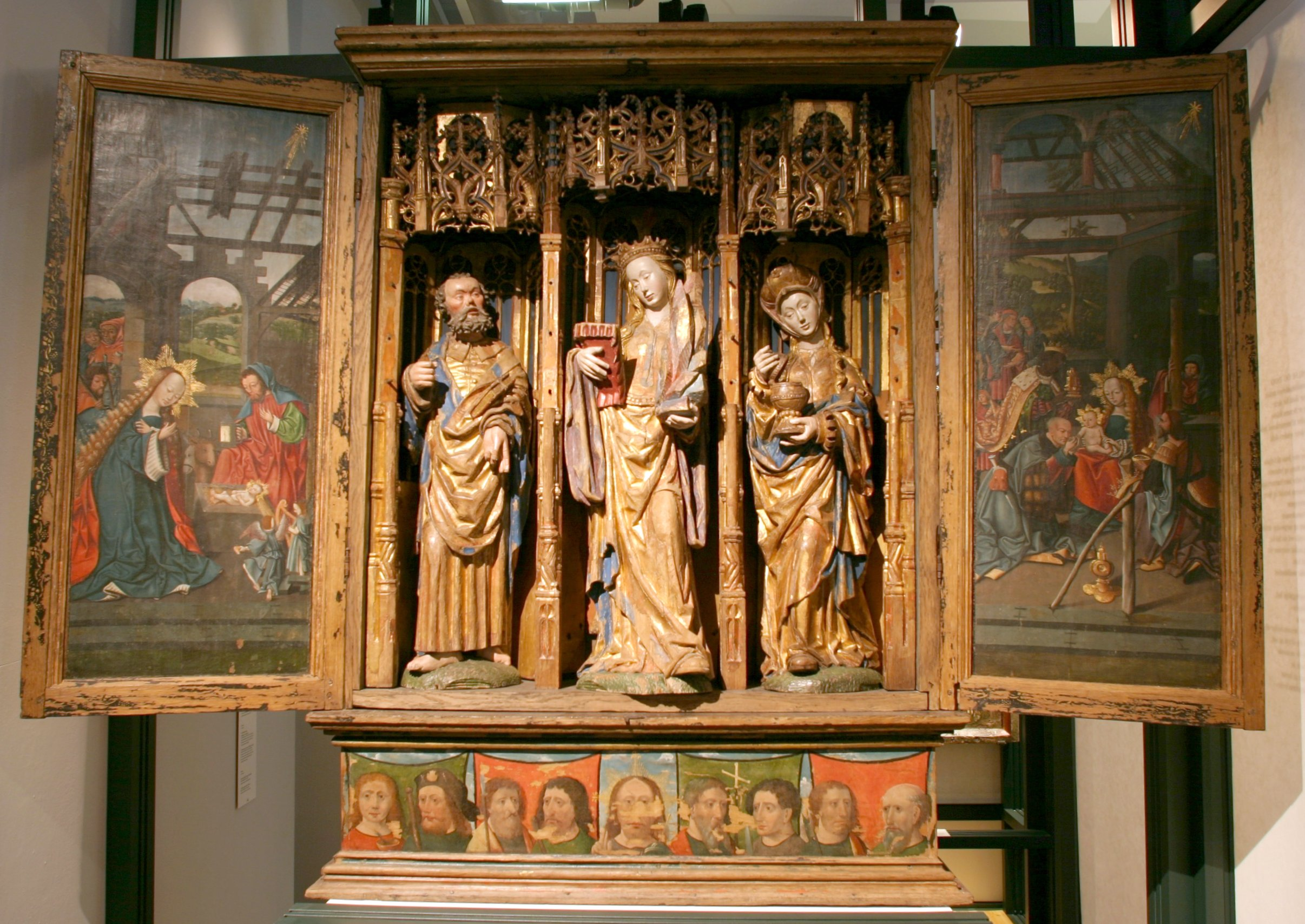 MOTIV: Altartavle PERIODE: ca. 1515 FUNNSTAD: Øn kyrkje KOMMUNE: Hyllestad ENGLISH: Altarpiece from Øn church, Hyllestad, Western Norway. From around year 1515. Exhibited in Bergen museum.